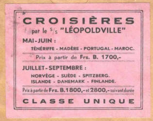 Advertising poster for cruises aboard the SS Léopoldville 5